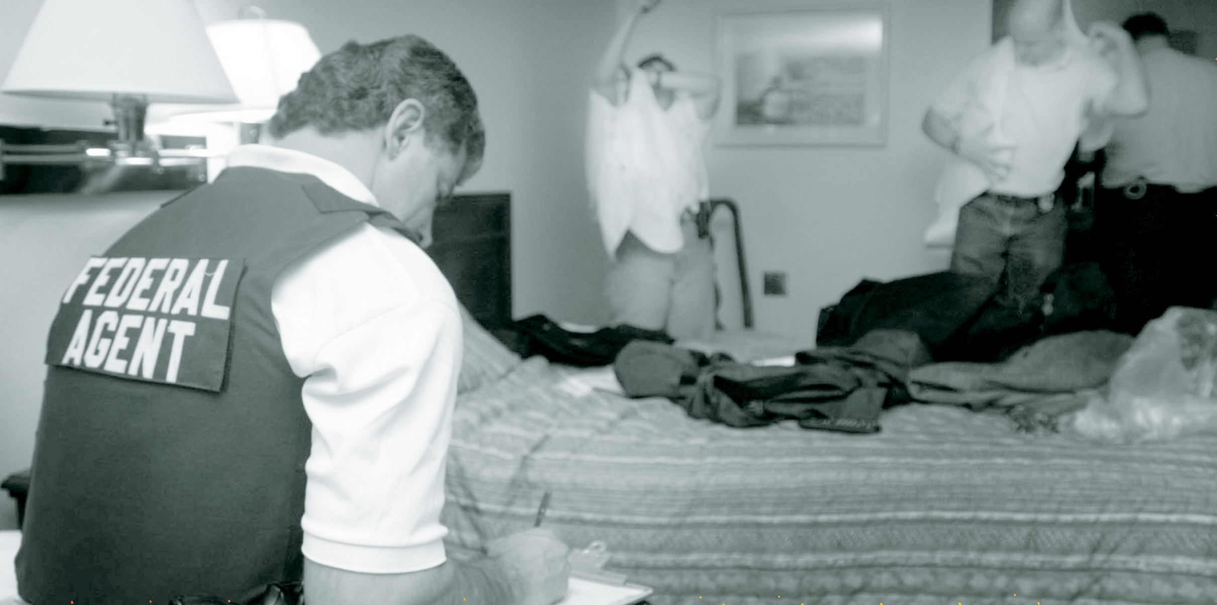 Twentynine Palms, CA. (Jul. 17, 2001) – Rick Warmack, assistant special agent in charge, reviews a safety briefing, while other NCIS agents prepare for an ecstasy drug sting. The sting resulted in the arrest of several service members for drug trafficking and ecstasy use. U.S. Navy photo by Photographer’s Mate 2nd Class Jim Watson. (RELEASED)